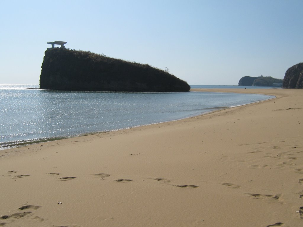 the coast near the Ma Jon Hotel